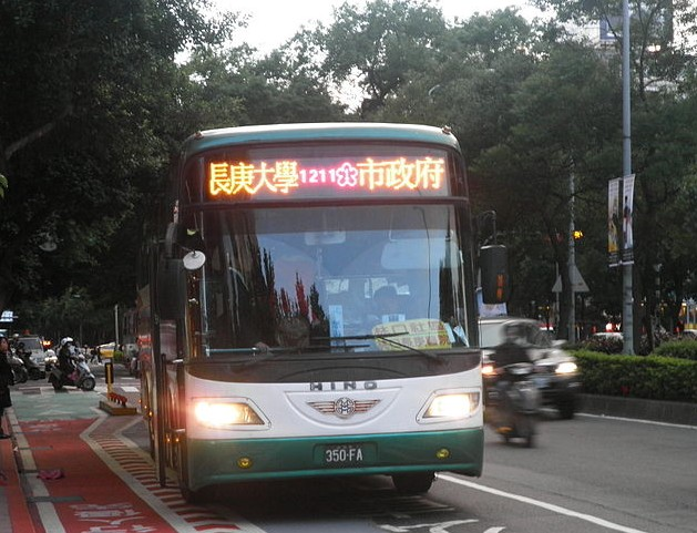 Sangchongbus 350FA